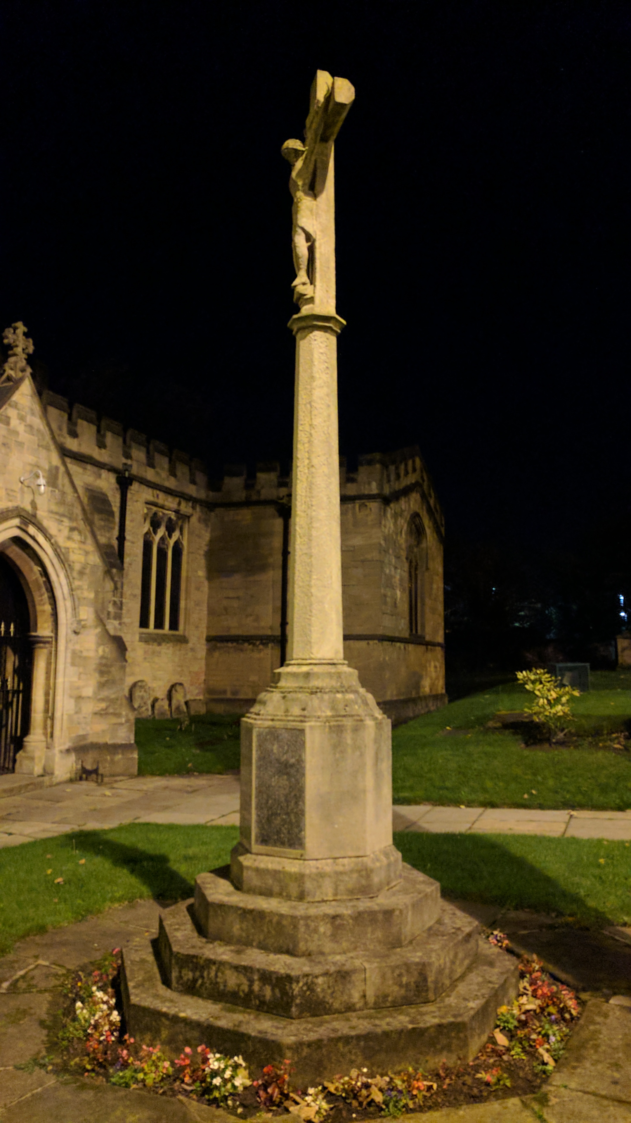 War Memorial 5 Metres South Of Church Of St Peter And St Paul Wikidata has entry Q26569075 with data related to this item.